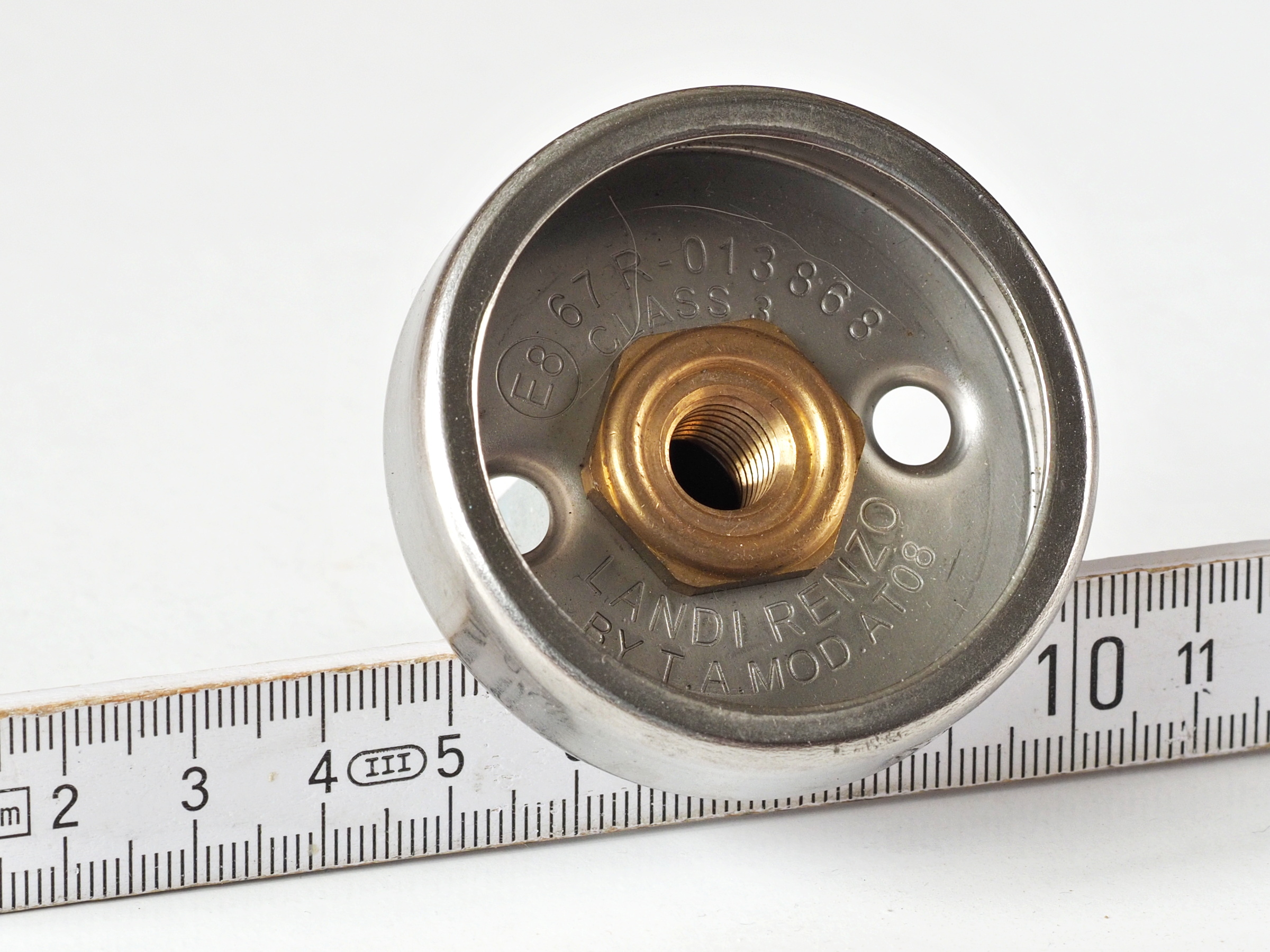 DISH connector for LPG fueling